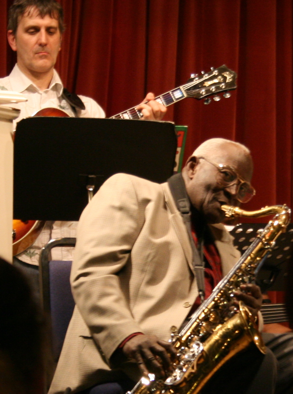 Jazz saxophonist Andy Hamilton